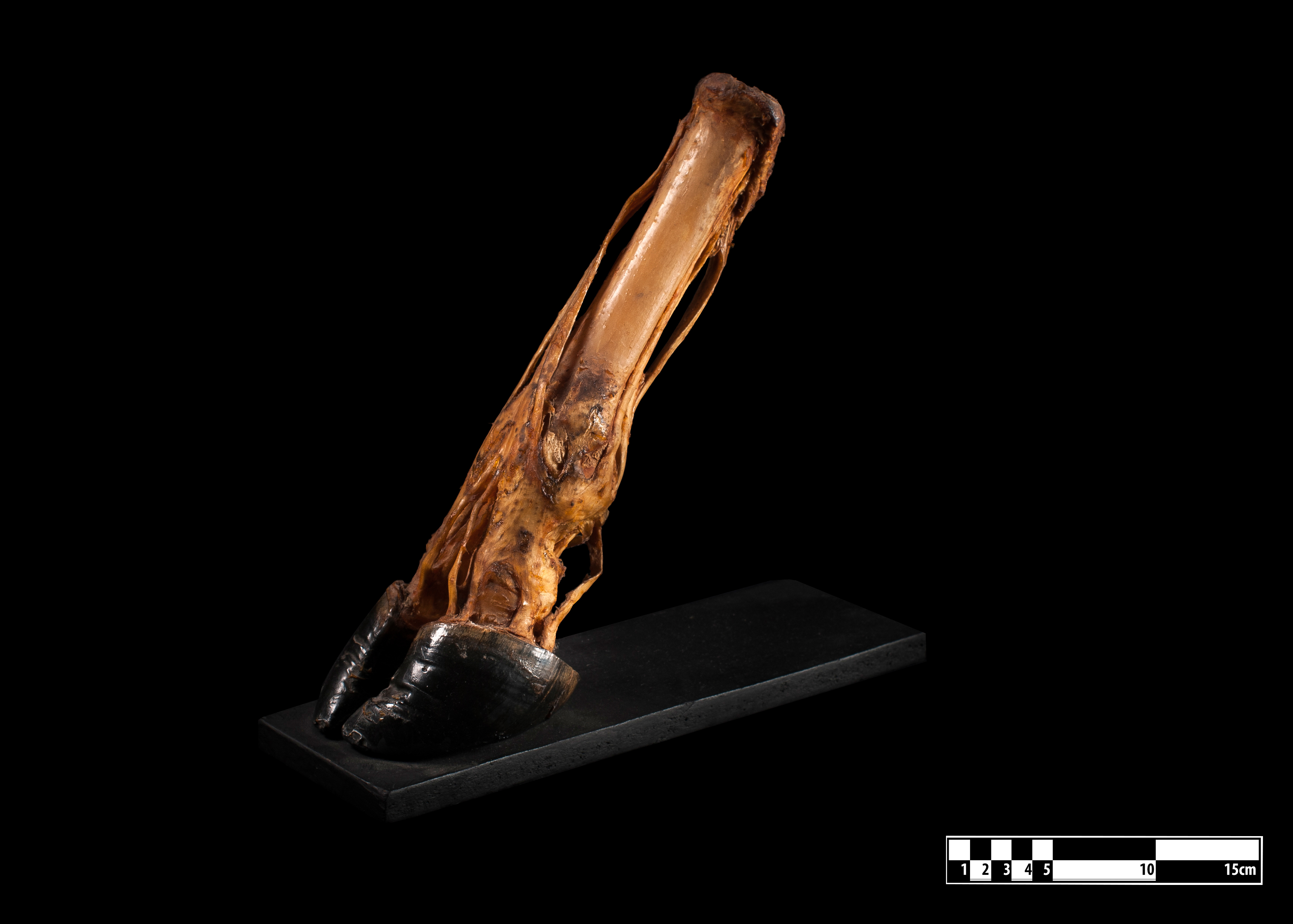 Bovine articulation (tarsus). Bos taurus Technique of dissection and glycerination - piece showing the bones and ligaments of the forelimb. Displayed at the Museum of Veterinary Anatomy FMVZ USP. This file was published as the result of a partnership between the Museum of Veterinary Anatomy FMVZ USP, the RIDC NeuroMat and the Wikimedia Community User Group Brasil. This GLAM project is reported. Photography: Museum of Veterinary Anatomy FMVZ USP. Author: Wagner Souza e Silva.